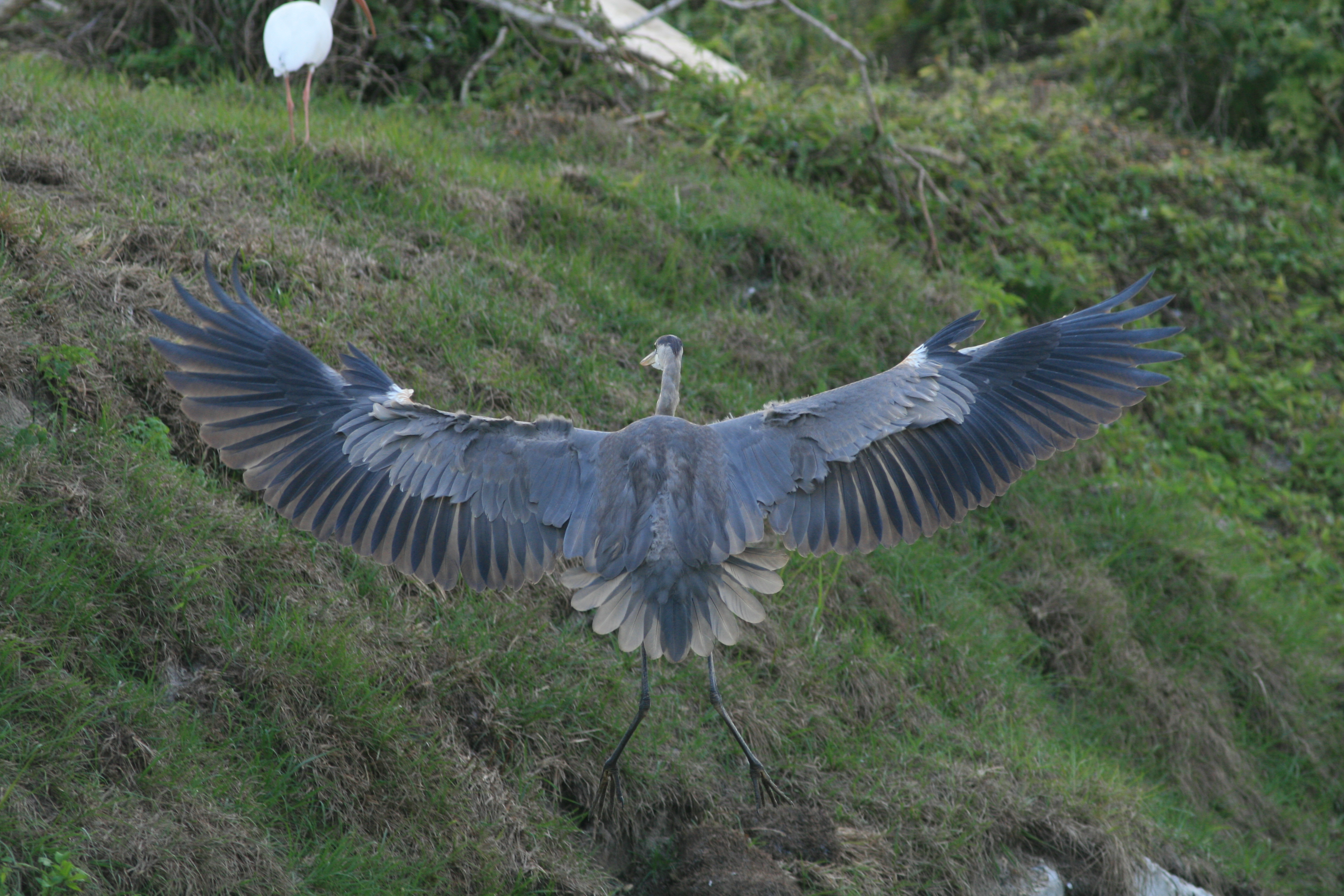 Great blue heron seen at the entrance to Loxahatchee National Wildlife Refuge in West Palm Beach, Florida, USA.